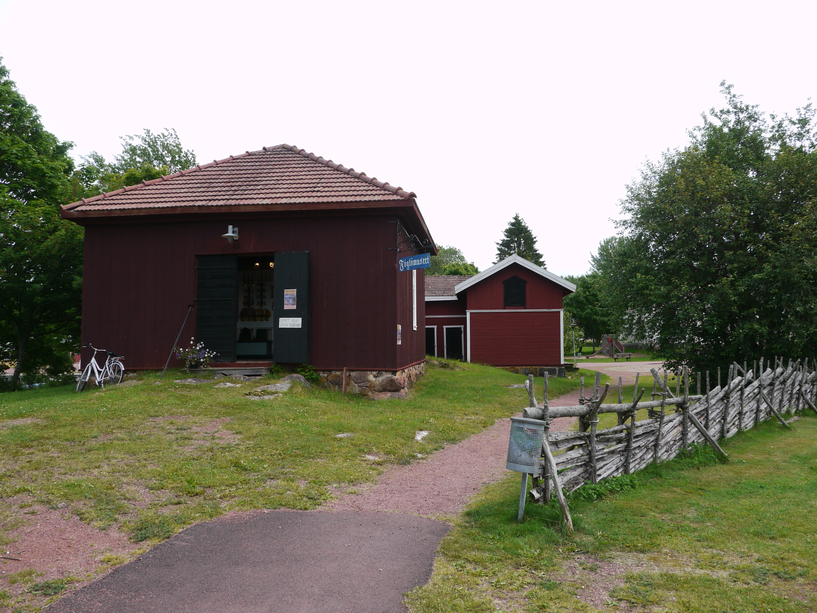 Föglömuseet: a museum about the community Föglö in Åland, in an old storehouse, built in 1820